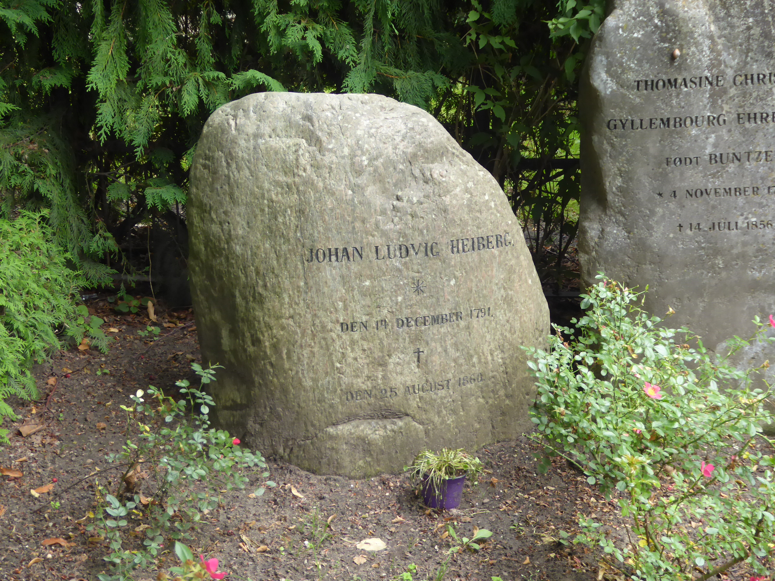 Grave of the author Johan Ludvig Heiberg (1791-1860) at Holmens Kirkegård in Østerbro in Copenhagen.